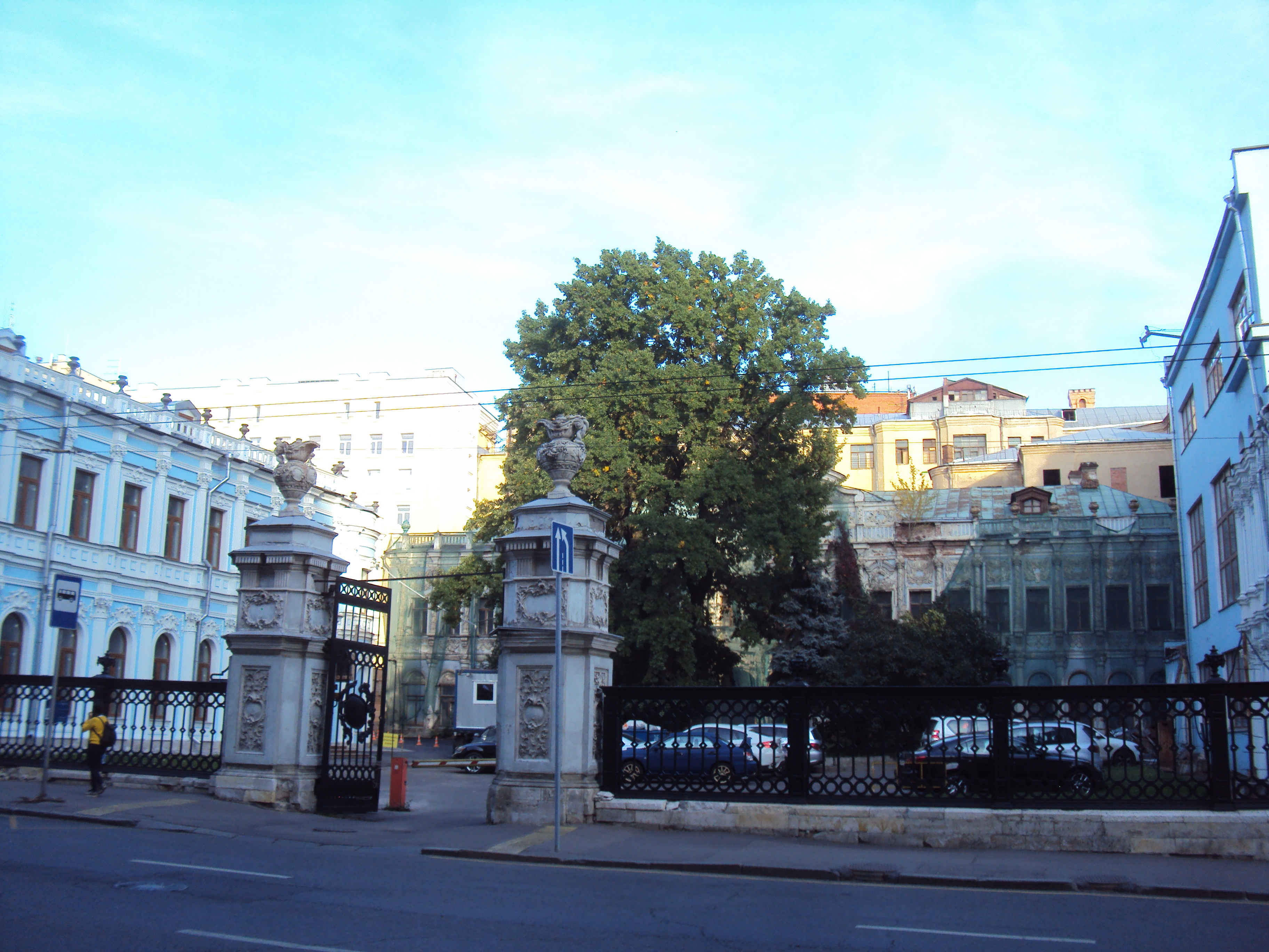 The house of Orlov-Denisov with two side wings